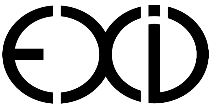 EXID LOGO